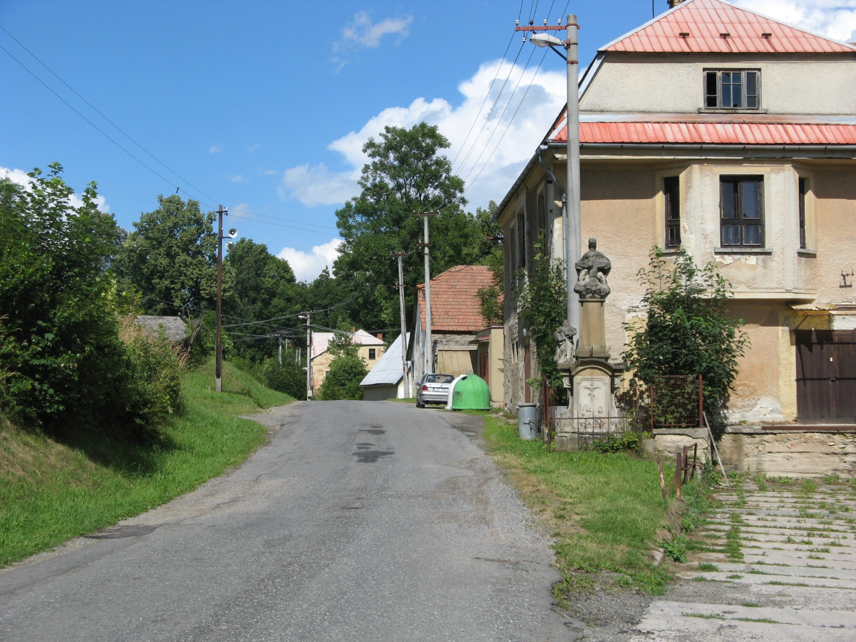 Kamenná Horka, district Svitavy